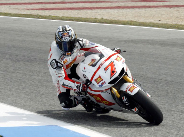 Hiroshi Aoyama 2011 Estoril